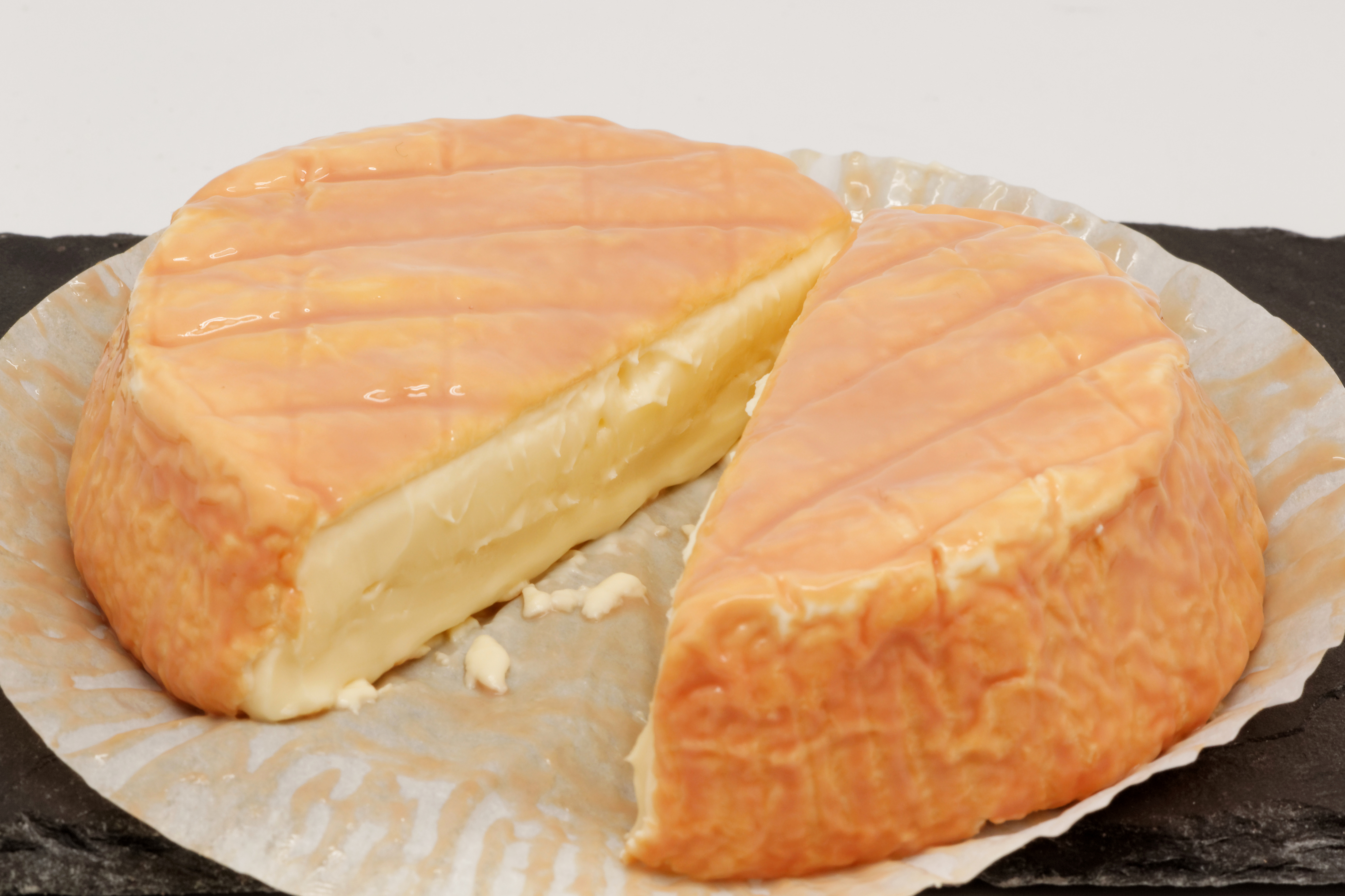 Époisses Gaugry (cow's milk cheese)